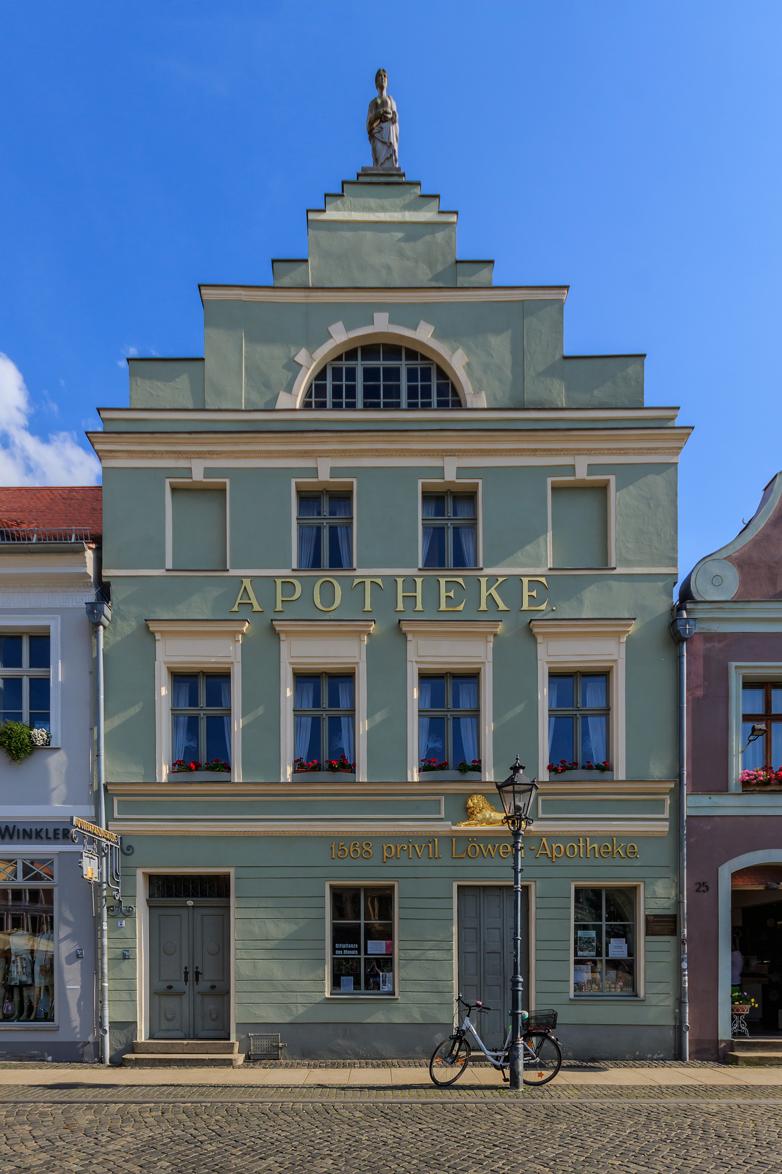 Pharmacy museum in Cottbus (Germany)